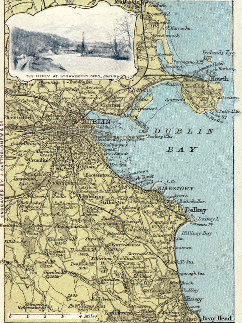 Dublin area, Ireland - postcard map showing the bulk of the middle and south county, including railways and other links, with an inset of the Strawberry Beds along the Liffey.